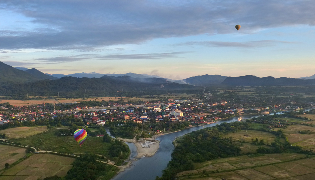 Vang Vieng, Vientiane Province, Laos. View toward the east, from a hot air balloon.